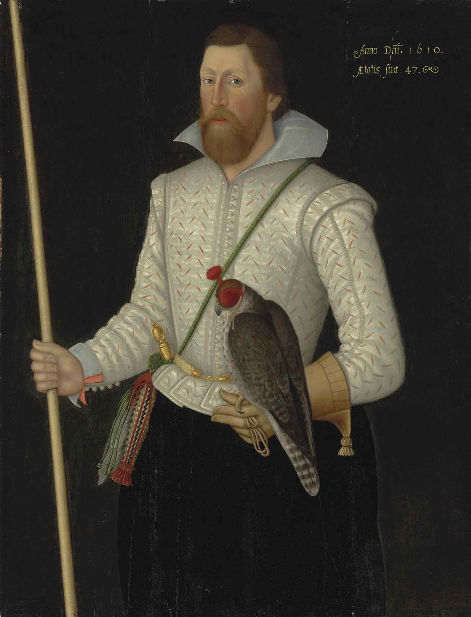 Portrait of Sir Thomas Monson, 1st Baronet, holding a falcon and his wand of office, 1610.